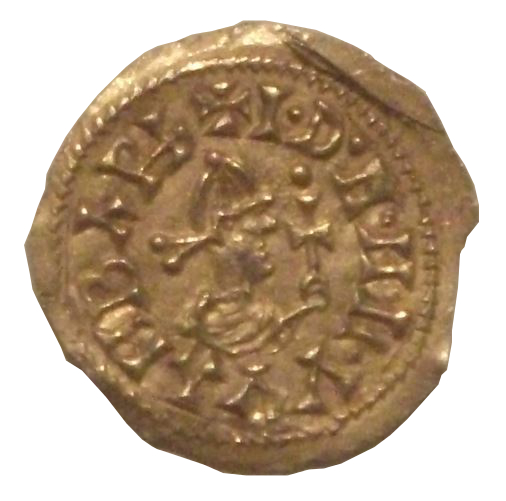 Coin of king Wamba. Based on